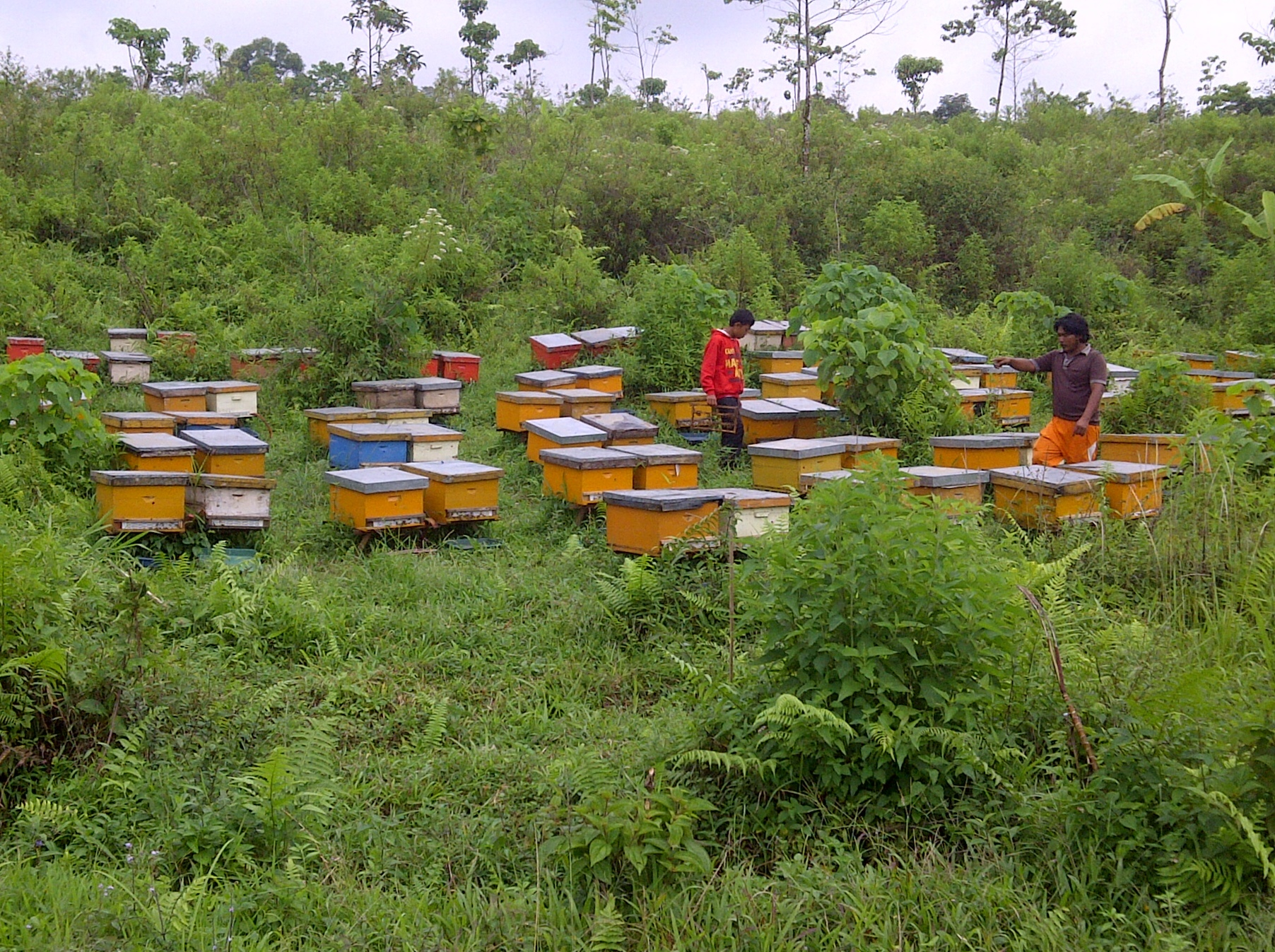 Beekeeping at Kawah Ijen Mountain, Indonesia